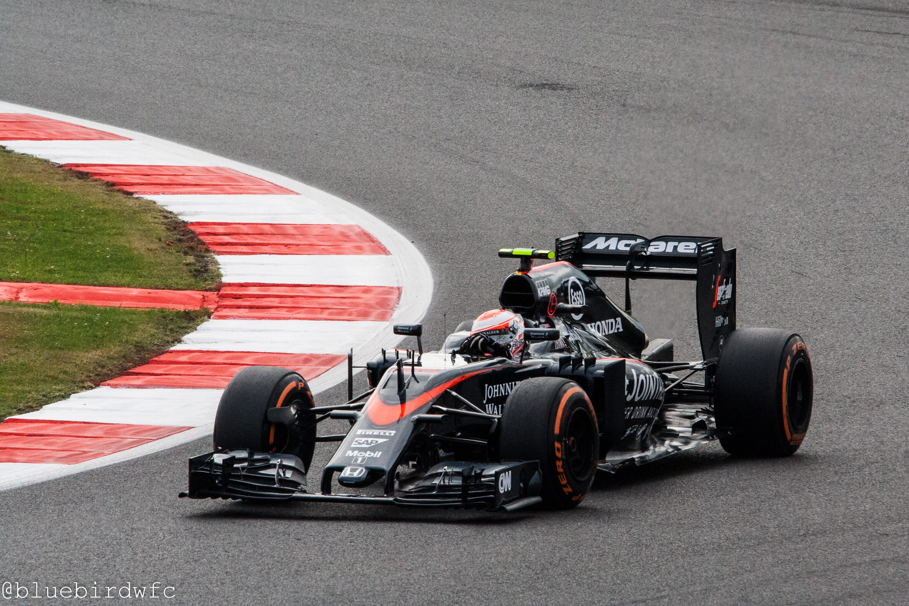 150704 F1 British Grand Prix Day Three-12